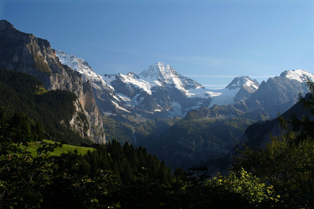 Breithorn (bernese alps) from lauterbrunnen